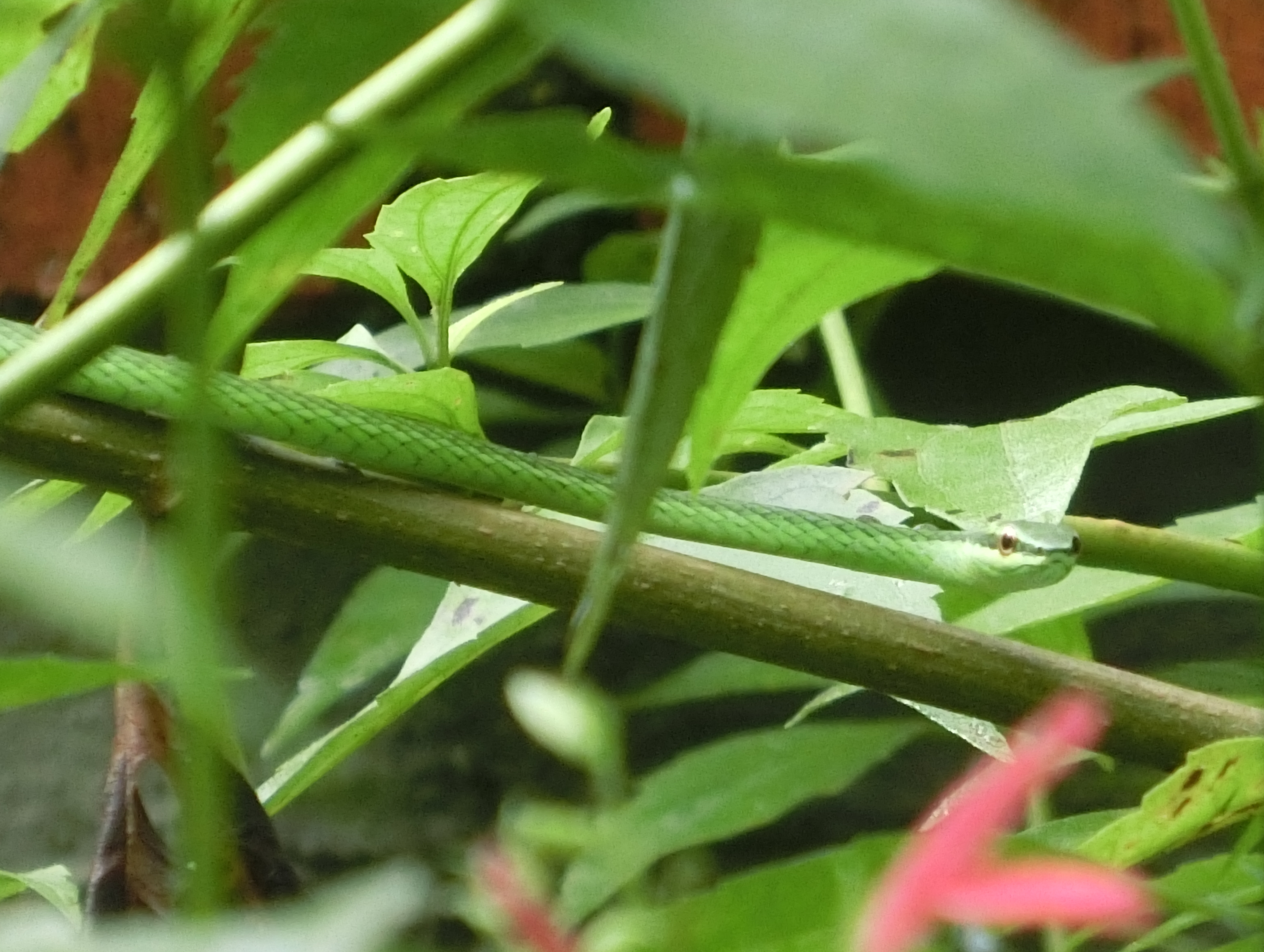 Blunt-headed Treesnake (Uromacer catesbyi) in the Dr. Rafael Ma. Moscoso National Botanical Garden, Santo Domingo, DR, Hispaniola.